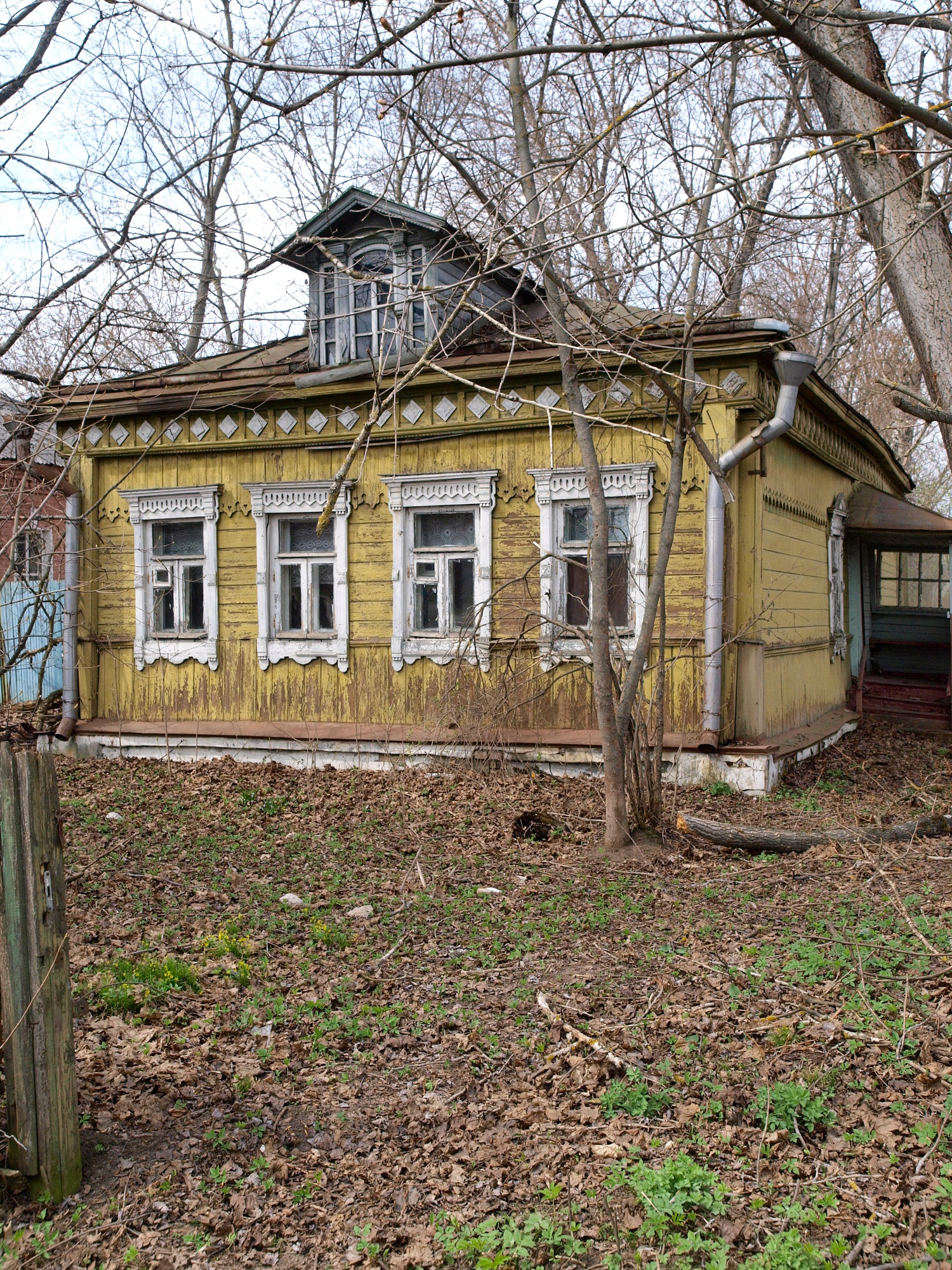 Village of Sharapovo, Odintsovsky District, Moscow Oblast.